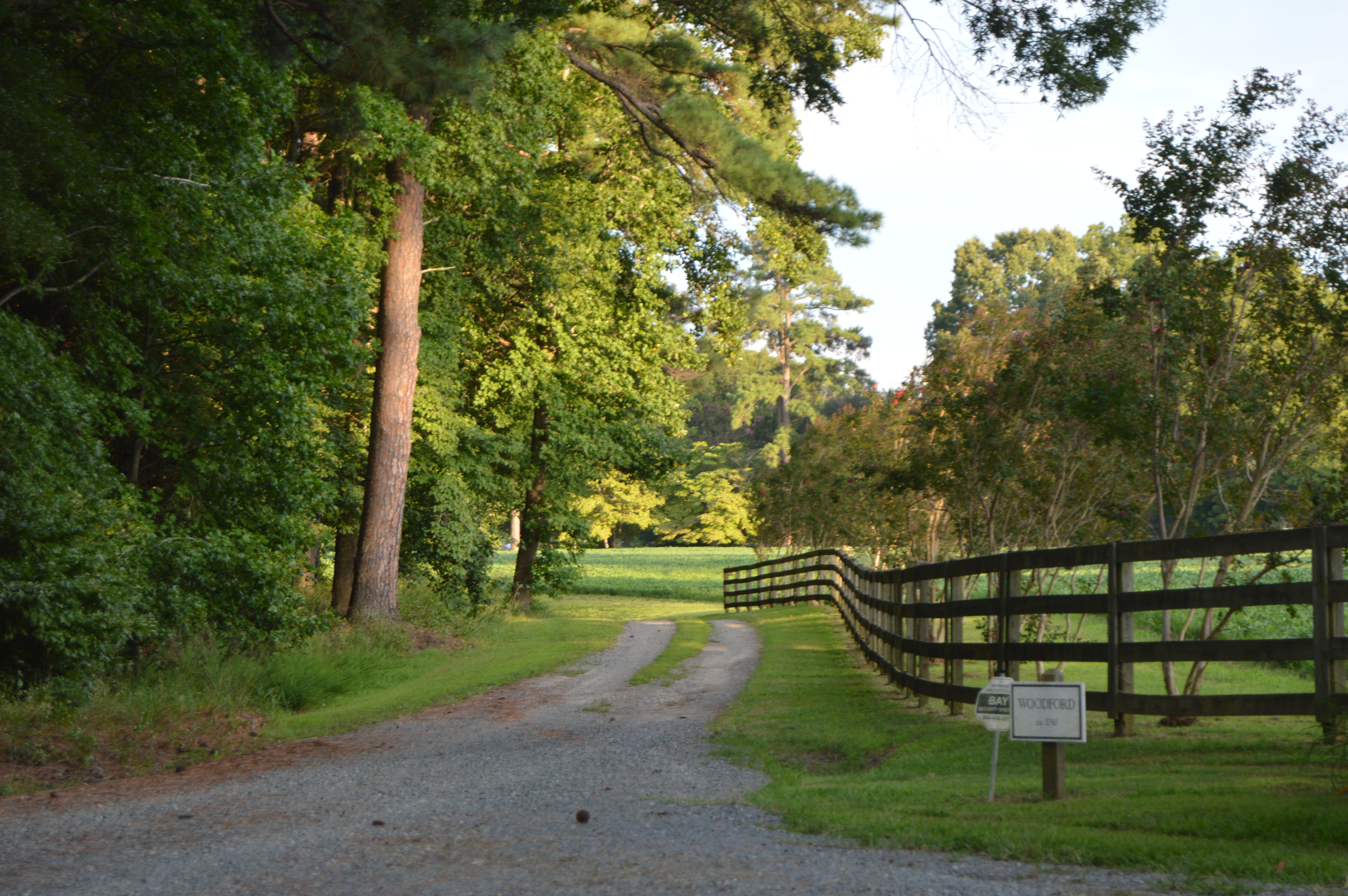 Entrance to the Woodford estate, located at the end of Ivondale Road southeast of Simons Corner in Richmond County, Virginia, United States. The farmstead is listed on the National Register of Historic Places.